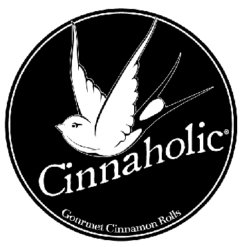 Cinnaholic Logo Round